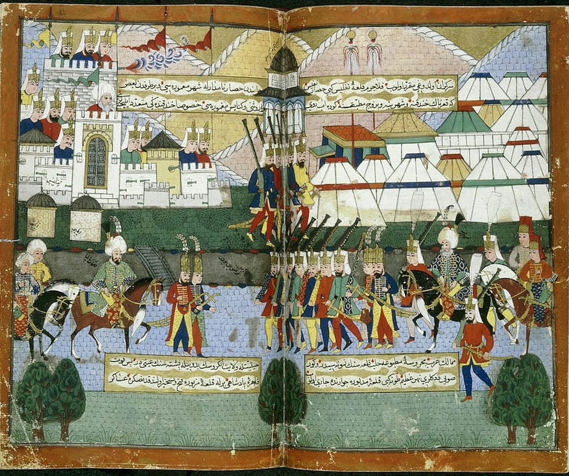 Lala Mustafa Paşa's Ottoman army parading before the walls of Tiflis (Tbilisi) in August 1578 after the city had been evacuated by Da' ud Khan. A double-page miniature painting from a 16th-century Ottoman manuscript Nusretname ("The Book of Victories" by Gelibolulu Mustafa Ali).The British Library, London, Great Britain.